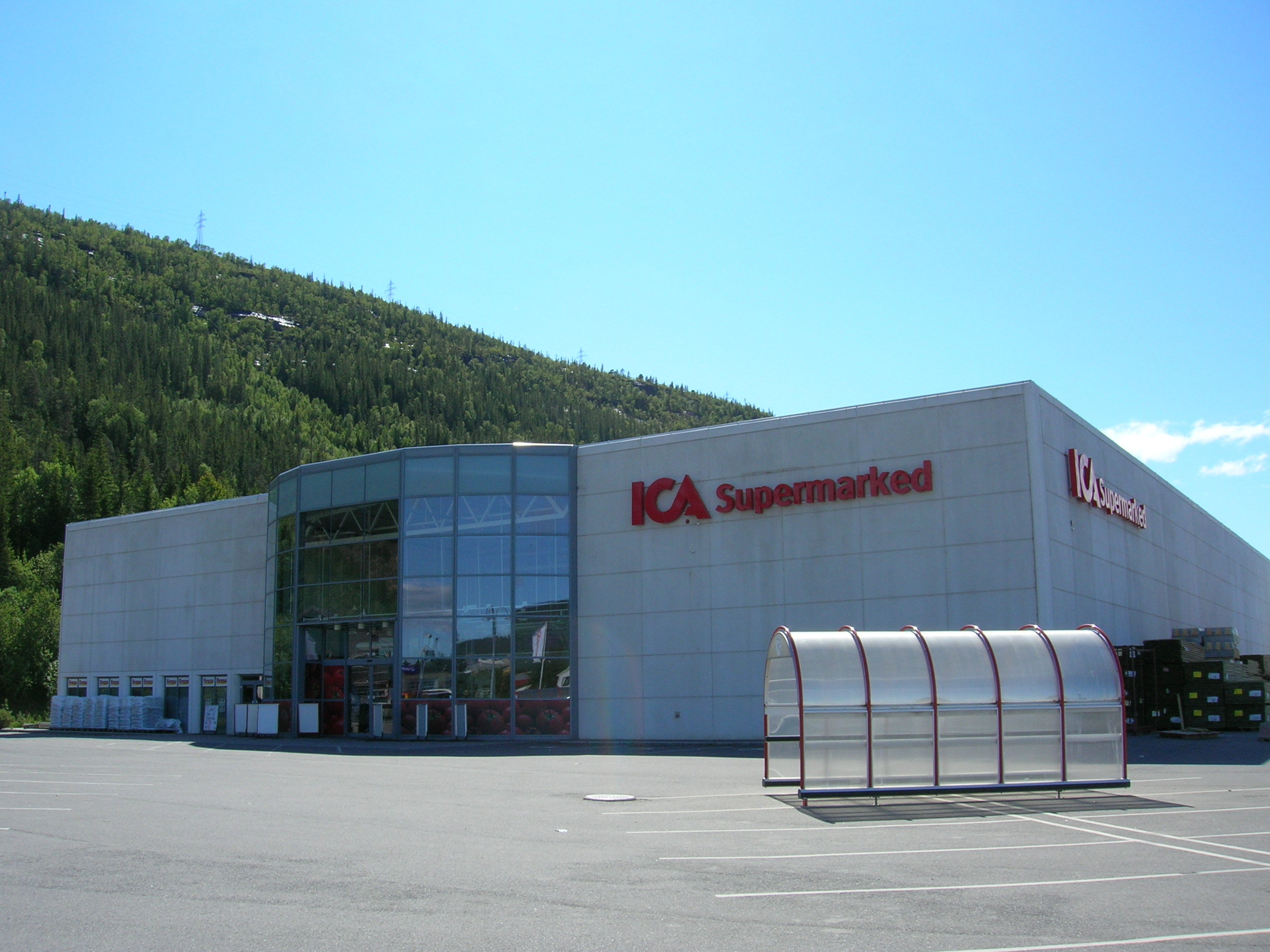 ICA grocary store in Langneset, Mo i Rana, Rana municipality, Nordland, Norway. Photo June 17, 2007 with a Nikon Coolpix 5600 5,1 Megapixel camera.